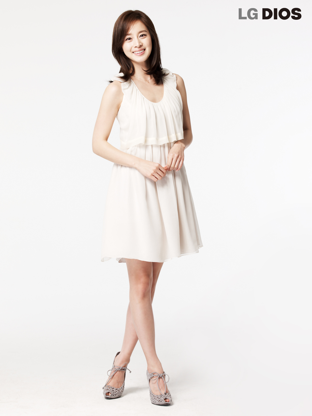 kim tae hee